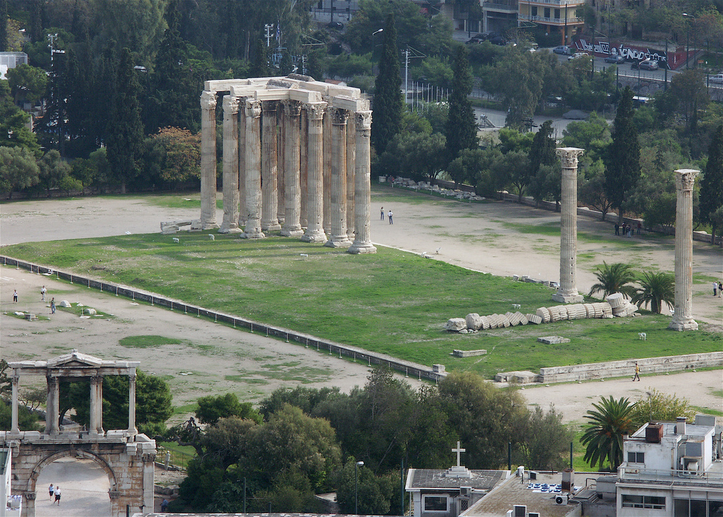 Temple of Zeus (Athens)